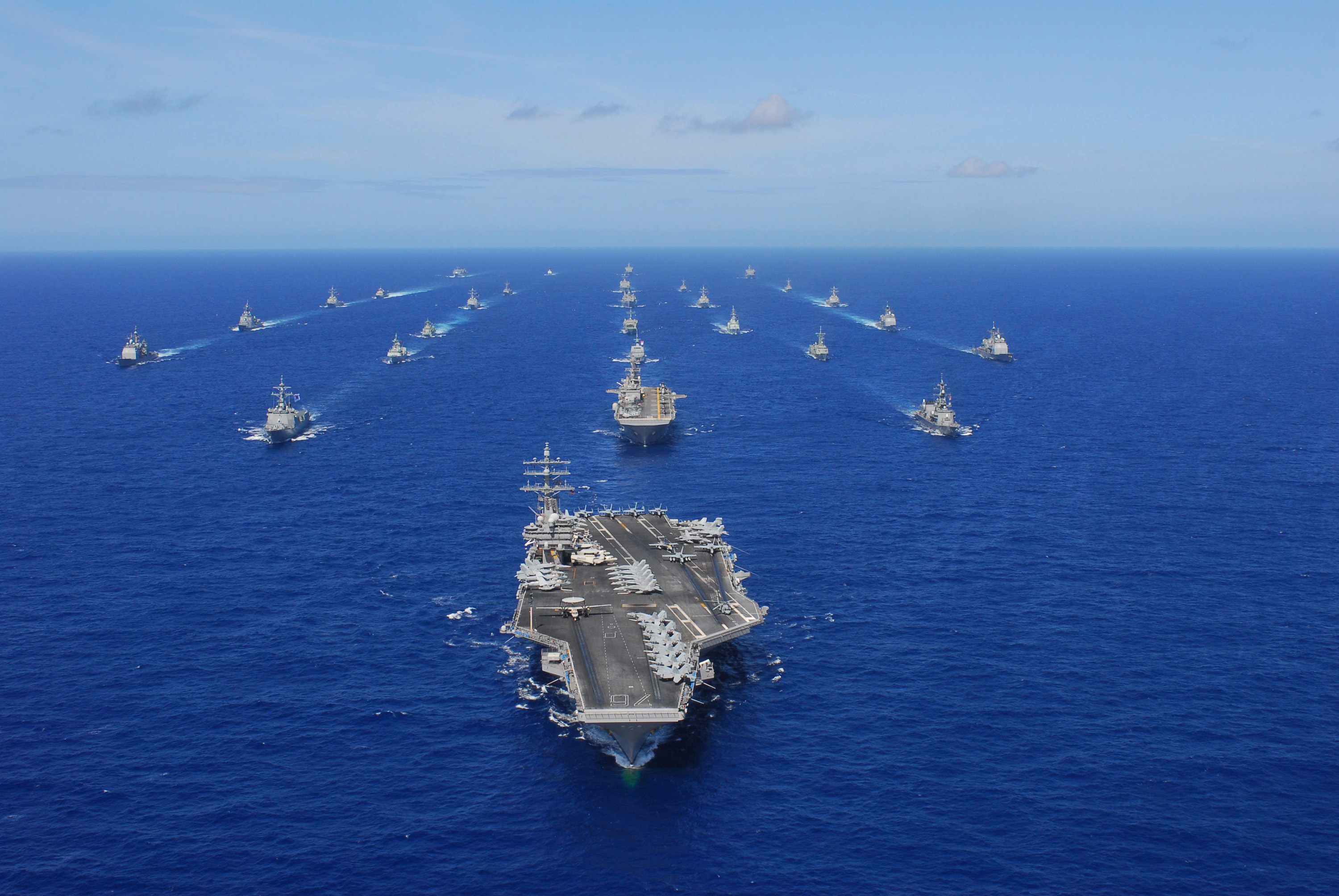 PACIFIC OCEAN (July 24, 2010) The aircraft carrier USS Ronald Reagan (CVN 76) transits the Pacific Ocean with ships assigned to Rim of the Pacific (RIMPAC) 2010 combined task force as part of a photo exercise north of Hawaii. RIMPAC, the world's largest multinational maritime exercise is a biennial event which allows participating nations to work together to build trust and enhance partnerships needed to improve maritime security. (U.S. Navy photo by Mass Communication Specialist 3rd Class Dylan McCord/Released)